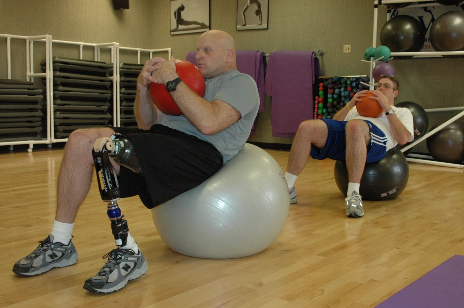 Sgt. Maj. Brent Jurgersen, also known as the "Rock," motivates his son Chase to get fit for his upcoming enlistment in the Army to continue a family tradition. The ball on the floor is known by various names: balance ball, birth ball, body ball, exercise ball, fit ball, fitness ball, gym ball, gymnastic ball, physioball, pilates ball, Pezzi ball, sports ball, stability ball, Swedish ball, Swiss ball, therapy ball, yoga ball